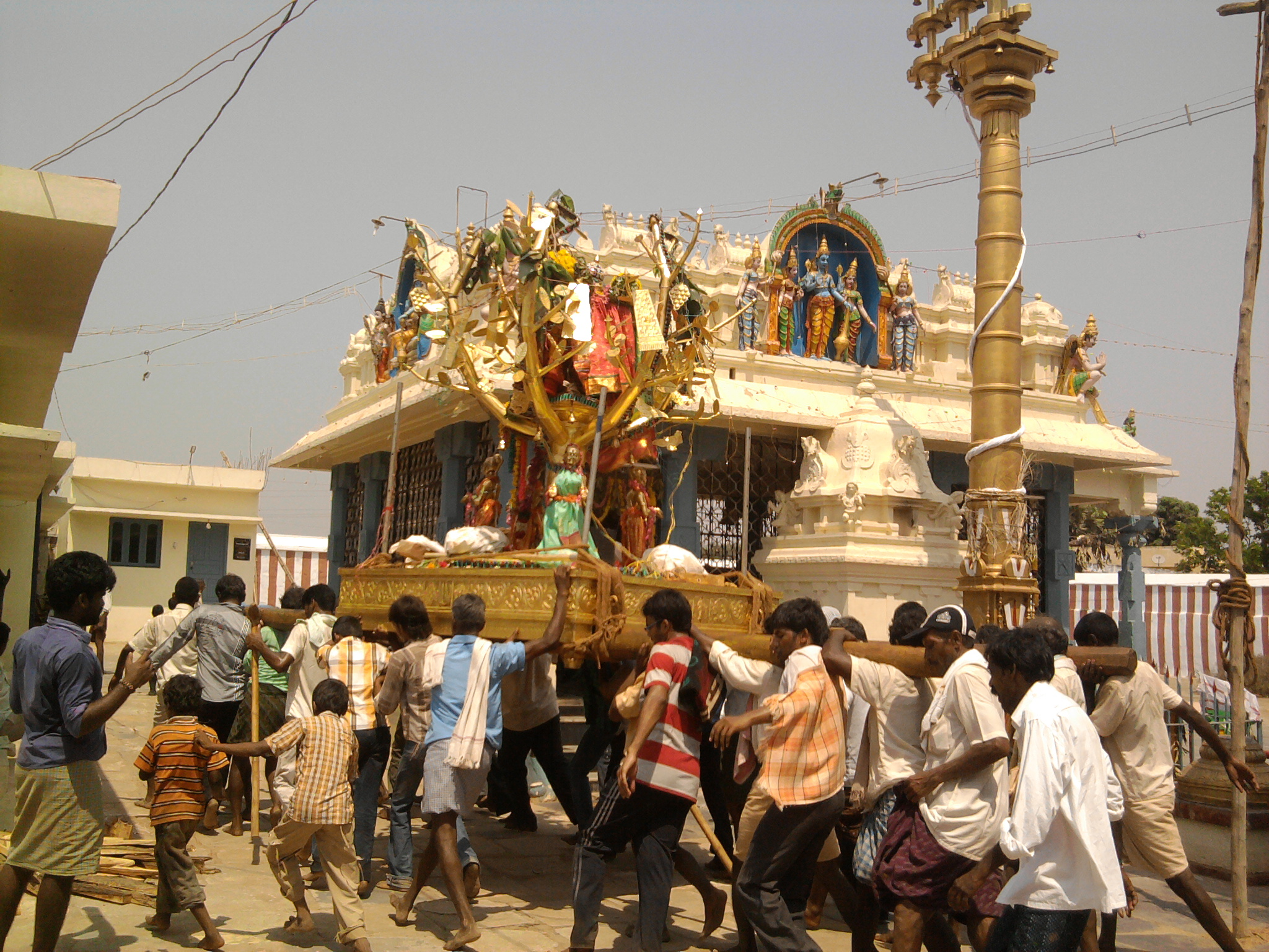 Ponnamaanu utsav